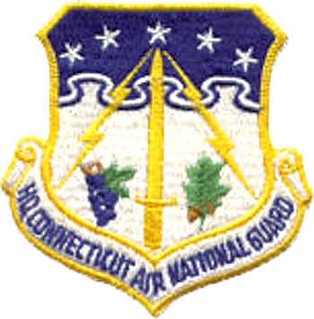 Connecticut Air National Guard - Emblem